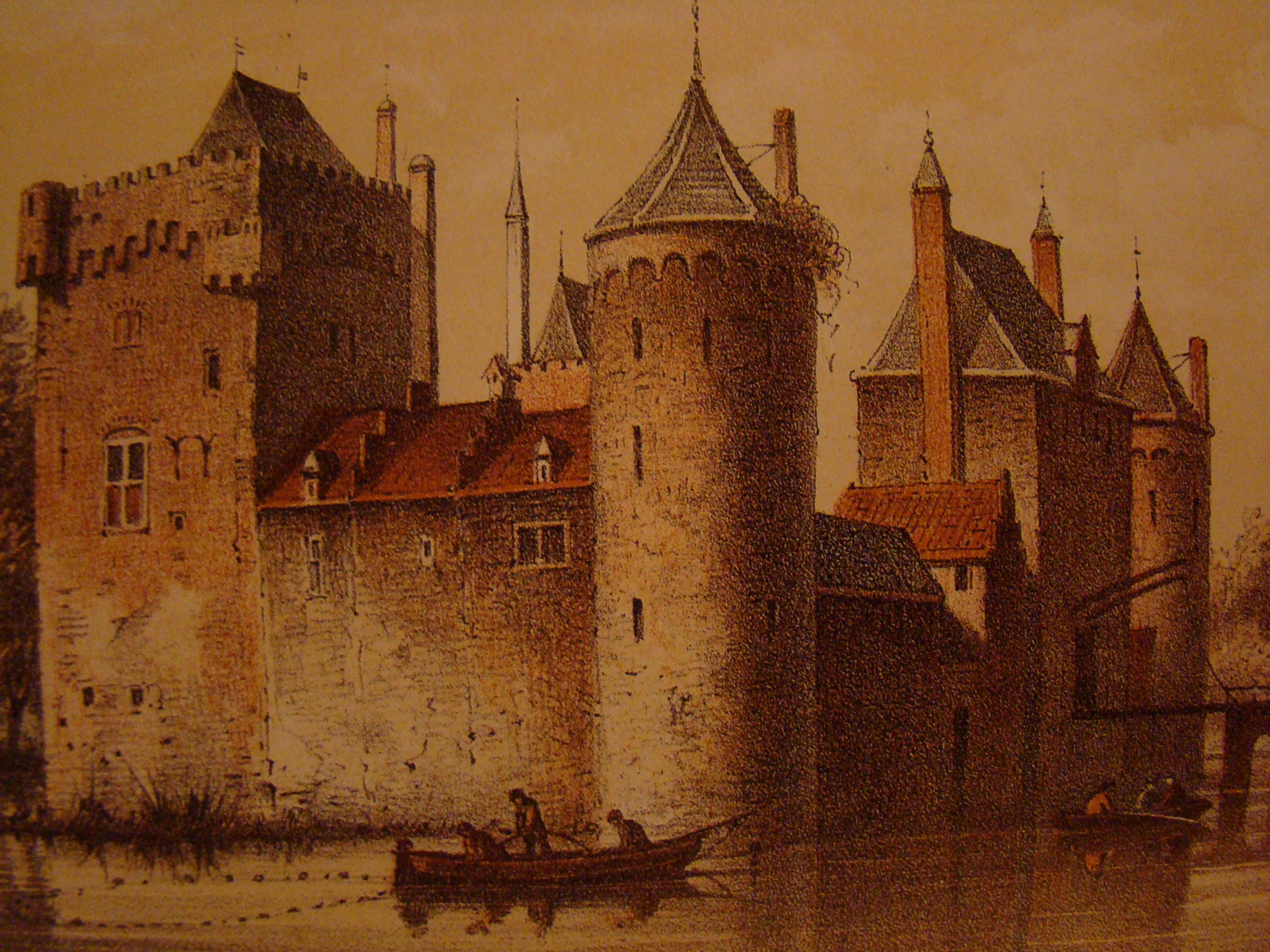 Castles of the Netherland, from the book "Merkwaardige kasteelen in Nederland" by Van Lennep and Hofdijk, 2nd release 1884.